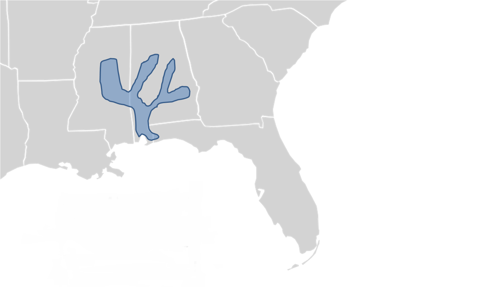 Range map of the Black-knobbed Map Turtle (Graptemys nigrinoda), based on C.H. Ernst and J.E. Lovich. (2009) "Turtles of the United States and Canada. 2nd Ed." Baltimore: Johns Hopkins University Press, pg 308